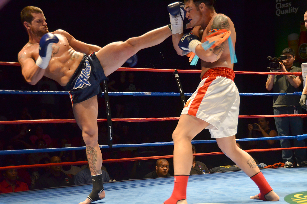 Muay Thai competitor attempts a high kick but it is blocked by his opponent.